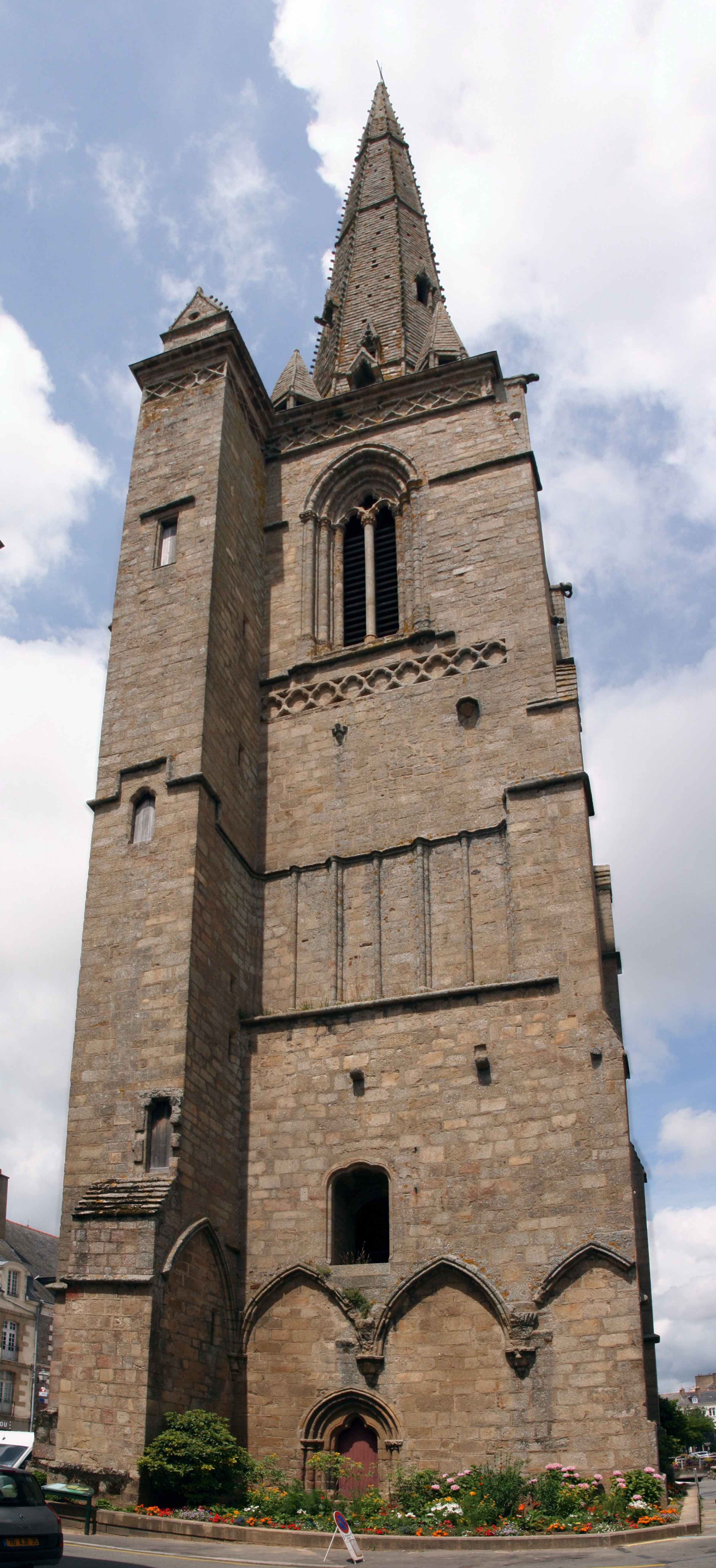 Gothic bell tower of Saint-Sauveur abbey in Redon, Brittany, France.